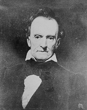 Picture of Asher Robbins, born October 26 1757, died February 25 1845. US Senator.